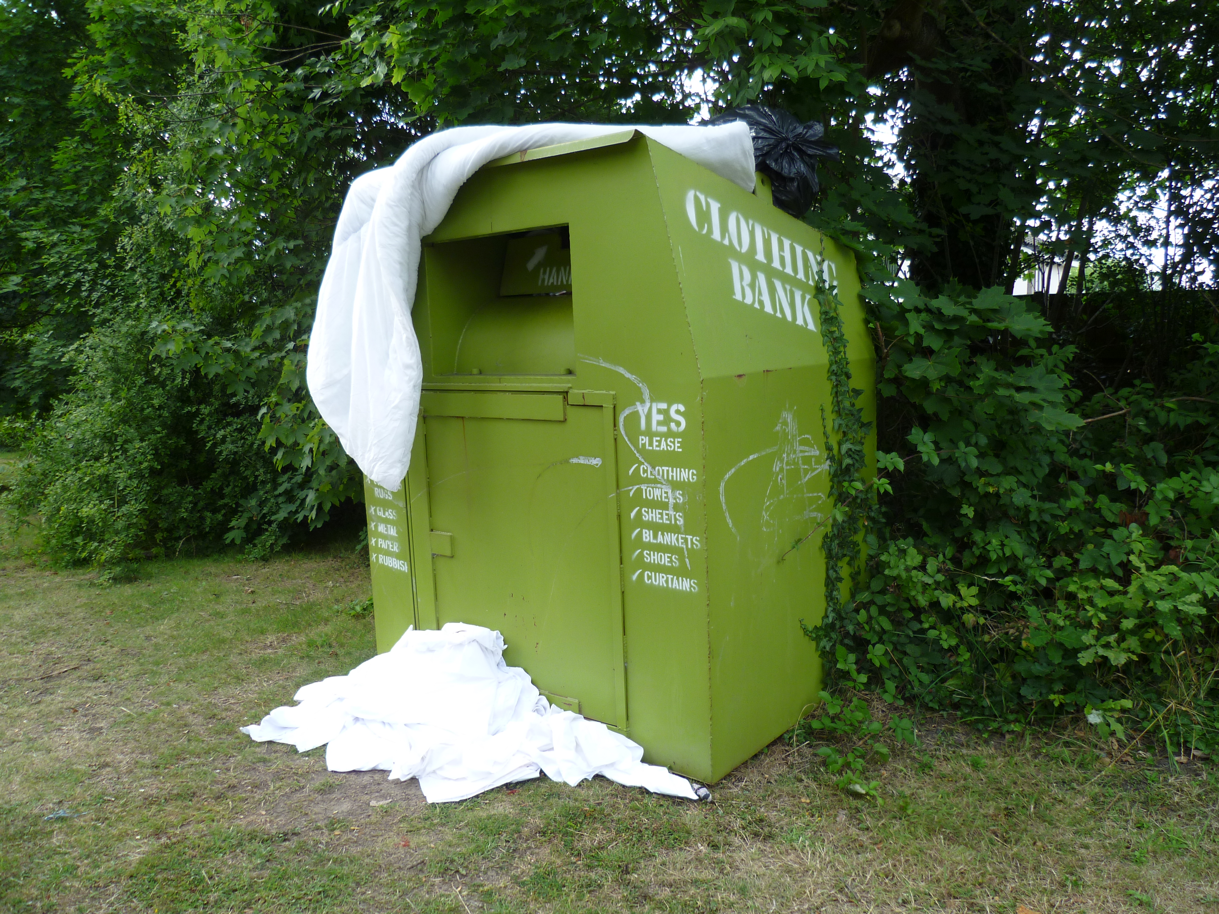 Potters Bar